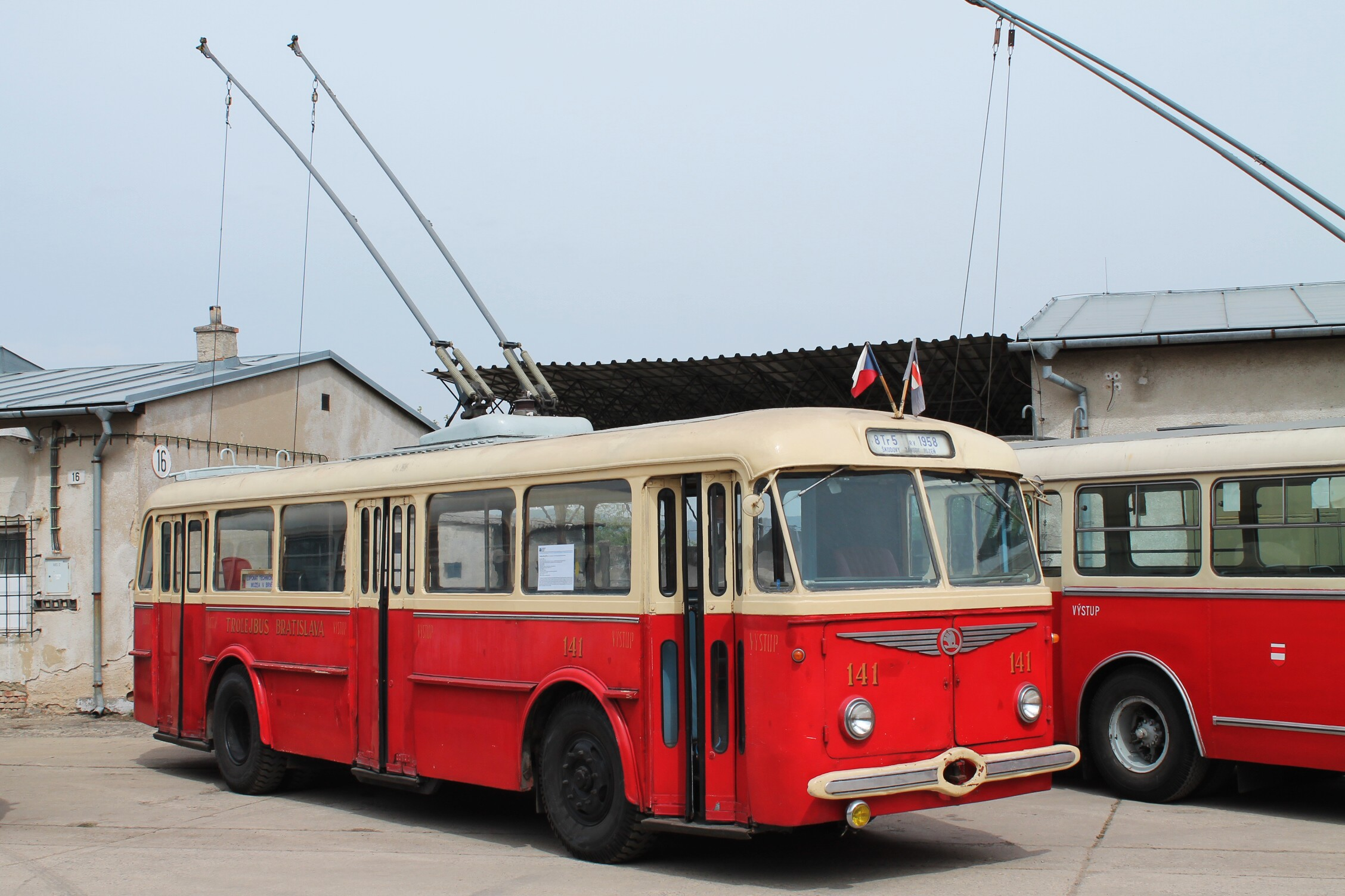 Škoda 8Tr5 (ex Bratislava) historical trolleybus, depository of Technical Museum in Brno, Czech Republic